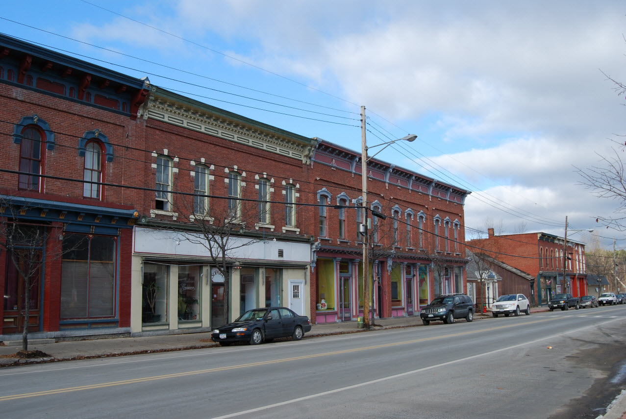 Keeseville Historic district, Keeseville, New York